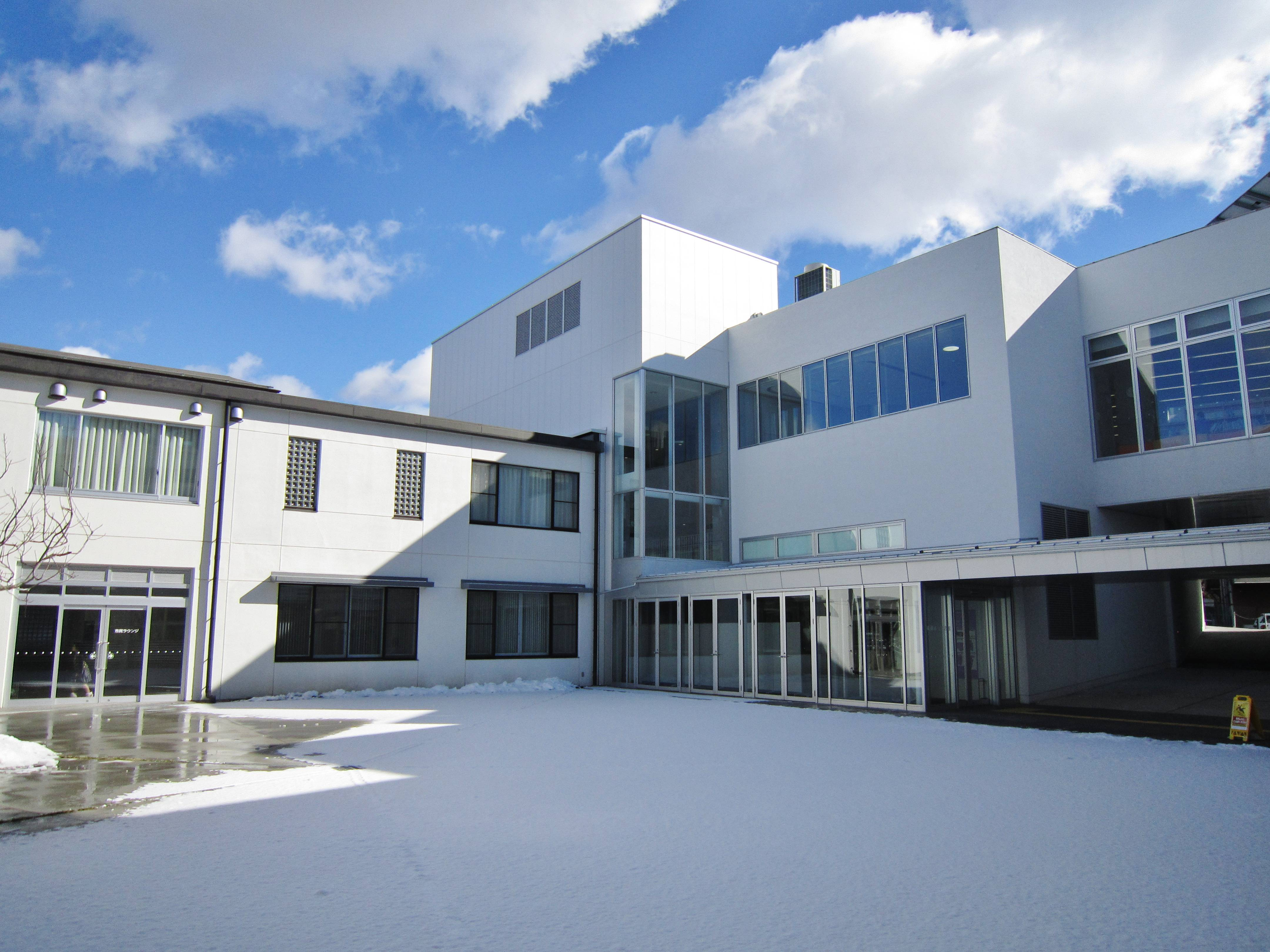 Tōmi city library.